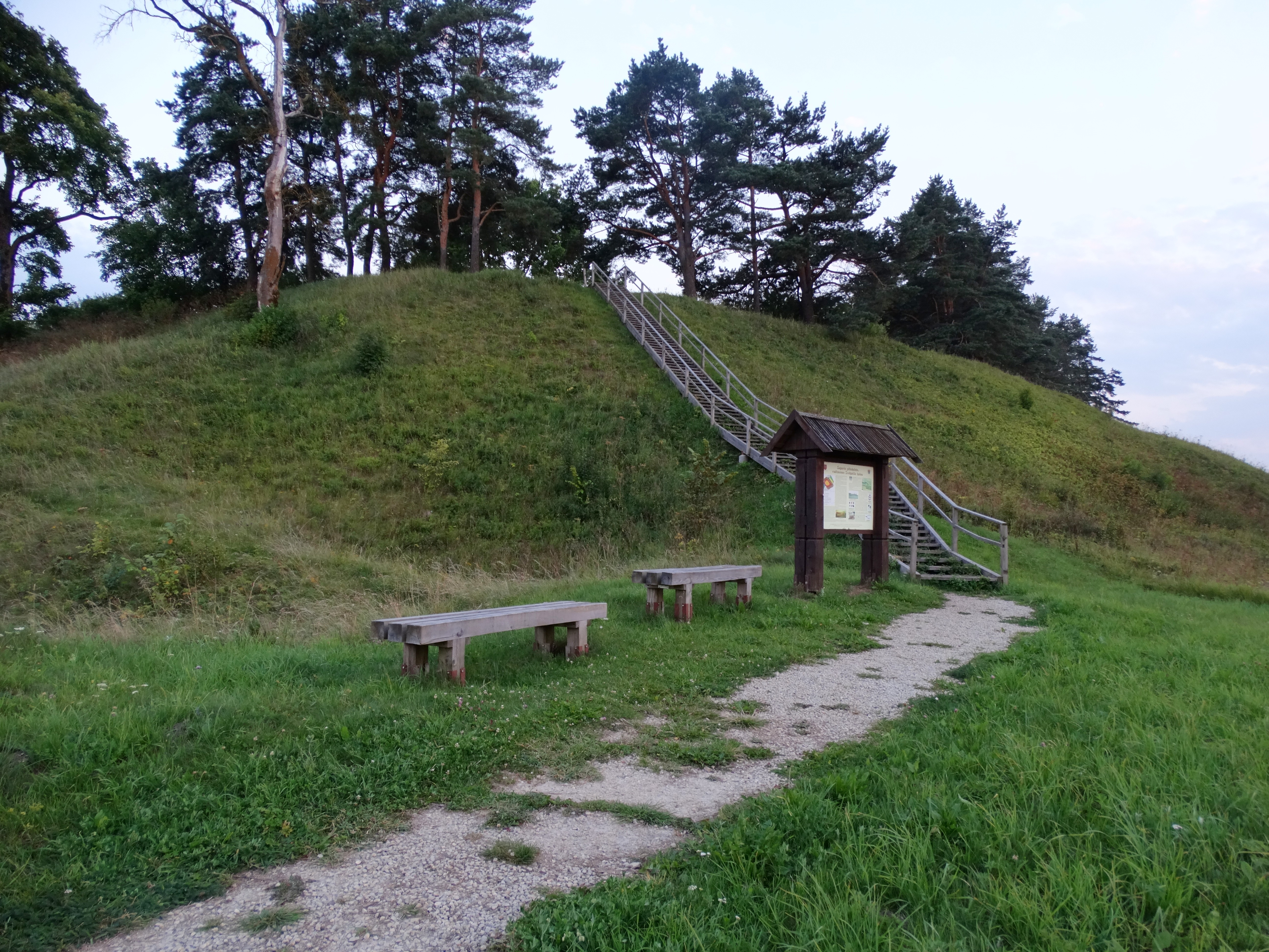 Žagarė hillfort or Žvelgaitis hill, Joniškis district, Lithuania